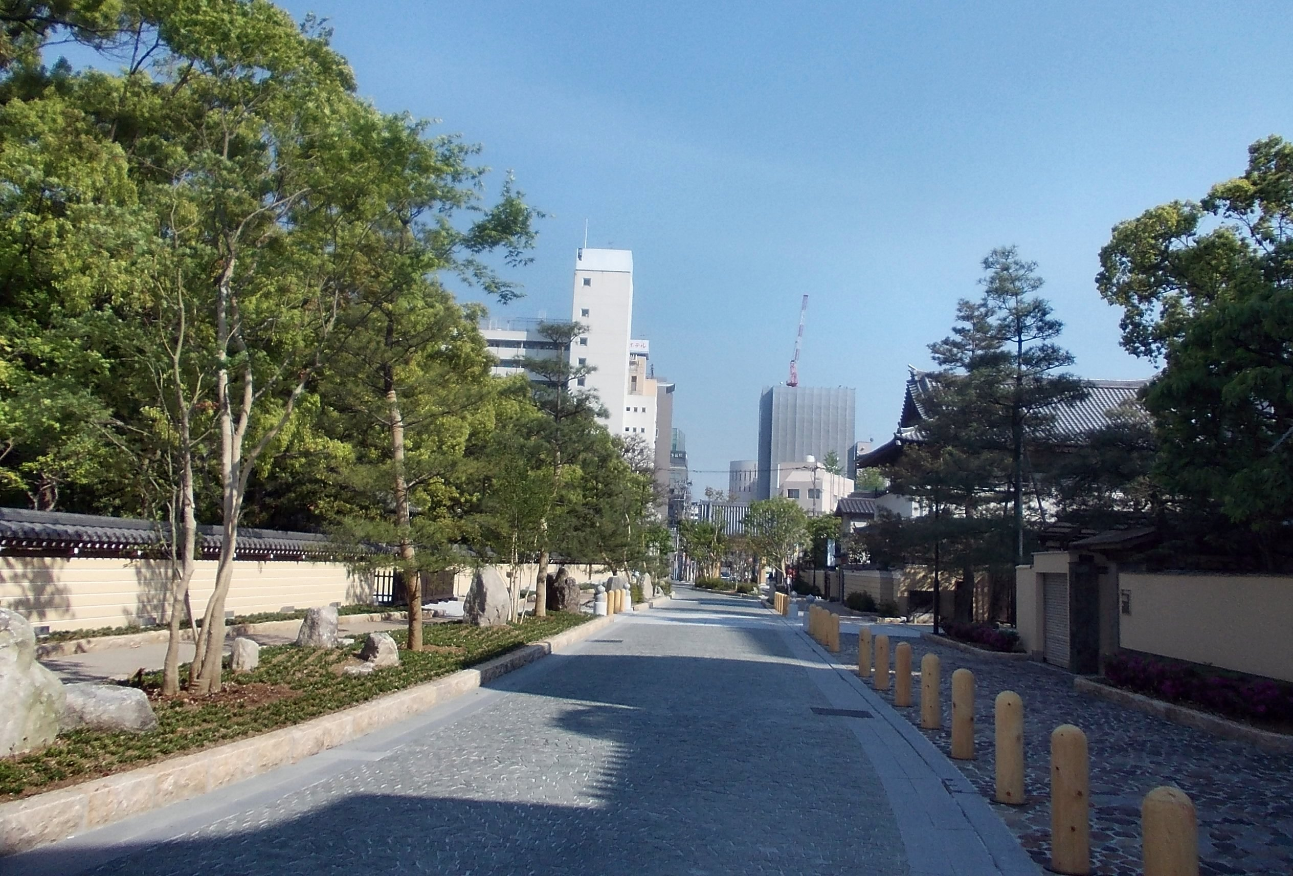 Jotenji-dori Avenue, Hakata-ku, Fukuoka, Japan. The repair work of the avenue was finished in March 2014.